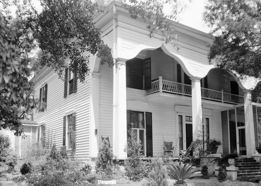 Mrs. Hugh Foster House, 201 Kennon Street, Union Springs (Bullock County, Alabama) cropped This file comes from the Historic American Buildings Survey (HABS), Historic American Engineering Record (HAER) or Historic American Landscapes Survey (HALS). These are programs of the National Park Service established for the purpose of documenting historic places. Records consist of measured drawings, archival photographs, and written reports. When reusing please credit: Library of Congress, Prints & Photographs Division, ALA,6-UNSP,1-8 This tag does not indicate the copyright status of the attached work. A normal copyright tag is still required. See Commons:Licensing. This work is in the public domain in the United States because it is a work prepared by an officer or employee of the United States Government as part of that person’s official duties under the terms of Title 17, Chapter 1, Section 105 of the US Code. Note: This only applies to original works of the Federal Government and not to the work of any individual U.S. state, territory, commonwealth, county, municipality, or any other subdivision. This template also does not apply to postage stamp designs published by the United States Postal Service since 1978. (See § 313.6(C)(1) of Compendium of U.S. Copyright Office Practices). It also does not apply to certain US coins; see The US Mint Terms of Use. This file has been identified as being free of known restrictions under copyright law, including all related and neighboring rights.